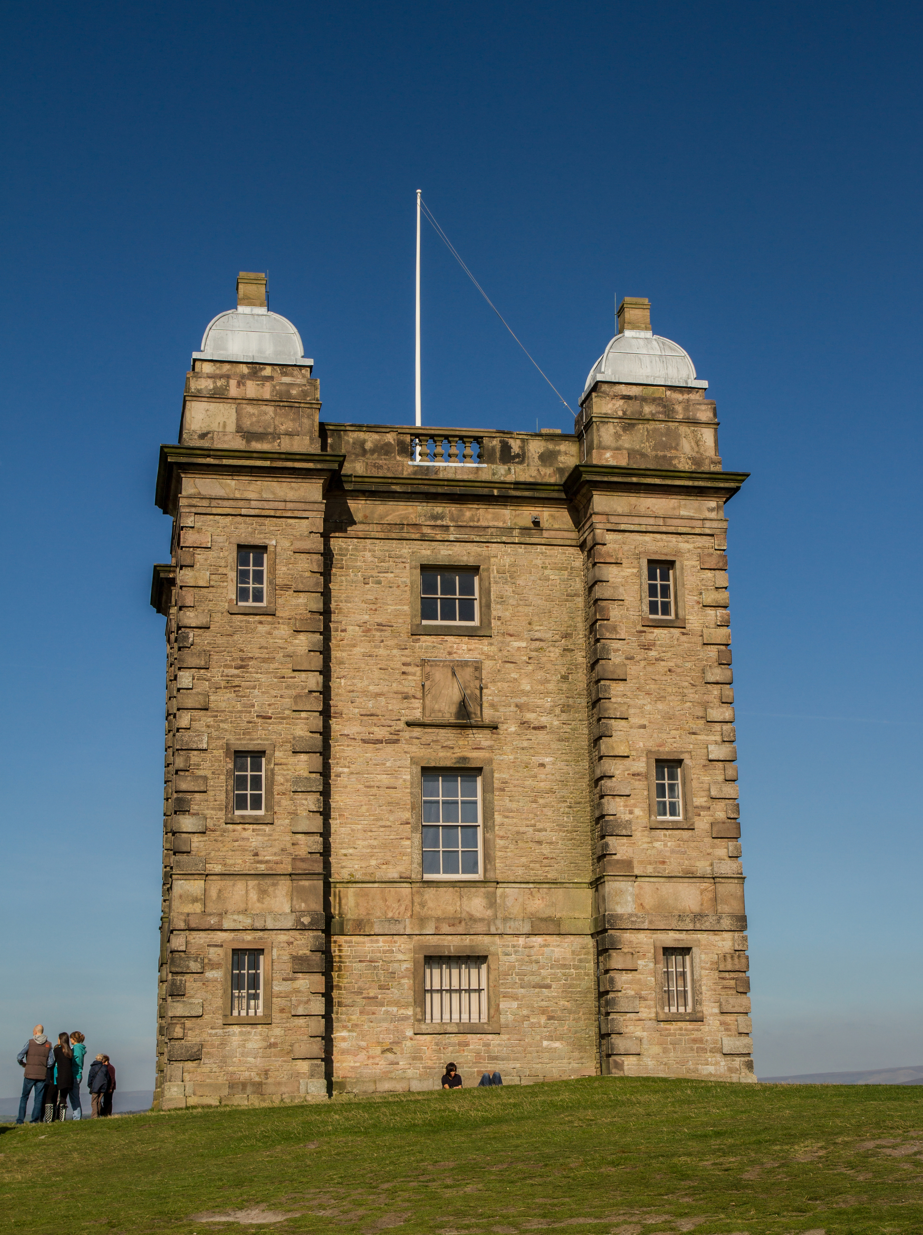 The Cage, a Grade II* listed building, part of the Lyme Park estate in Cheshire.